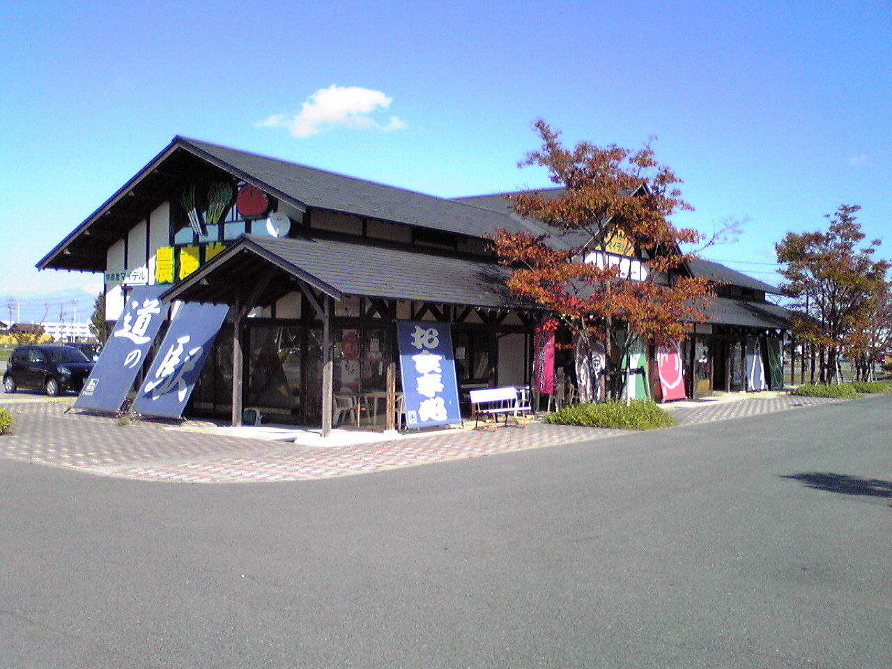 Noson bunka koryukan (Rural Culture Community Square) Maideru at Michinoeki Shonai Mikawa in Mikawa Town, Yamagata Prefecture, Japan